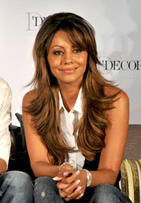 Gauri Khan during the launch of D'décor, for which she is brand ambassador along with her husband Shahrukh Khan